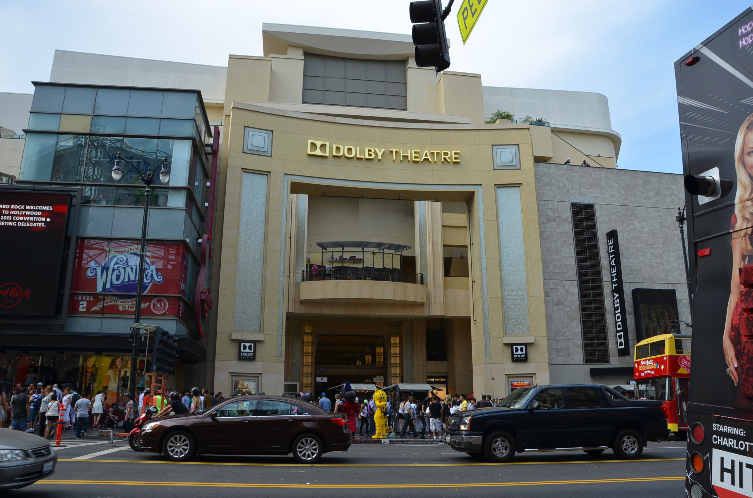 Dolby Theatre, formerly Kodak Theatre, Hollywood Boulevard, Hollywood, CA.